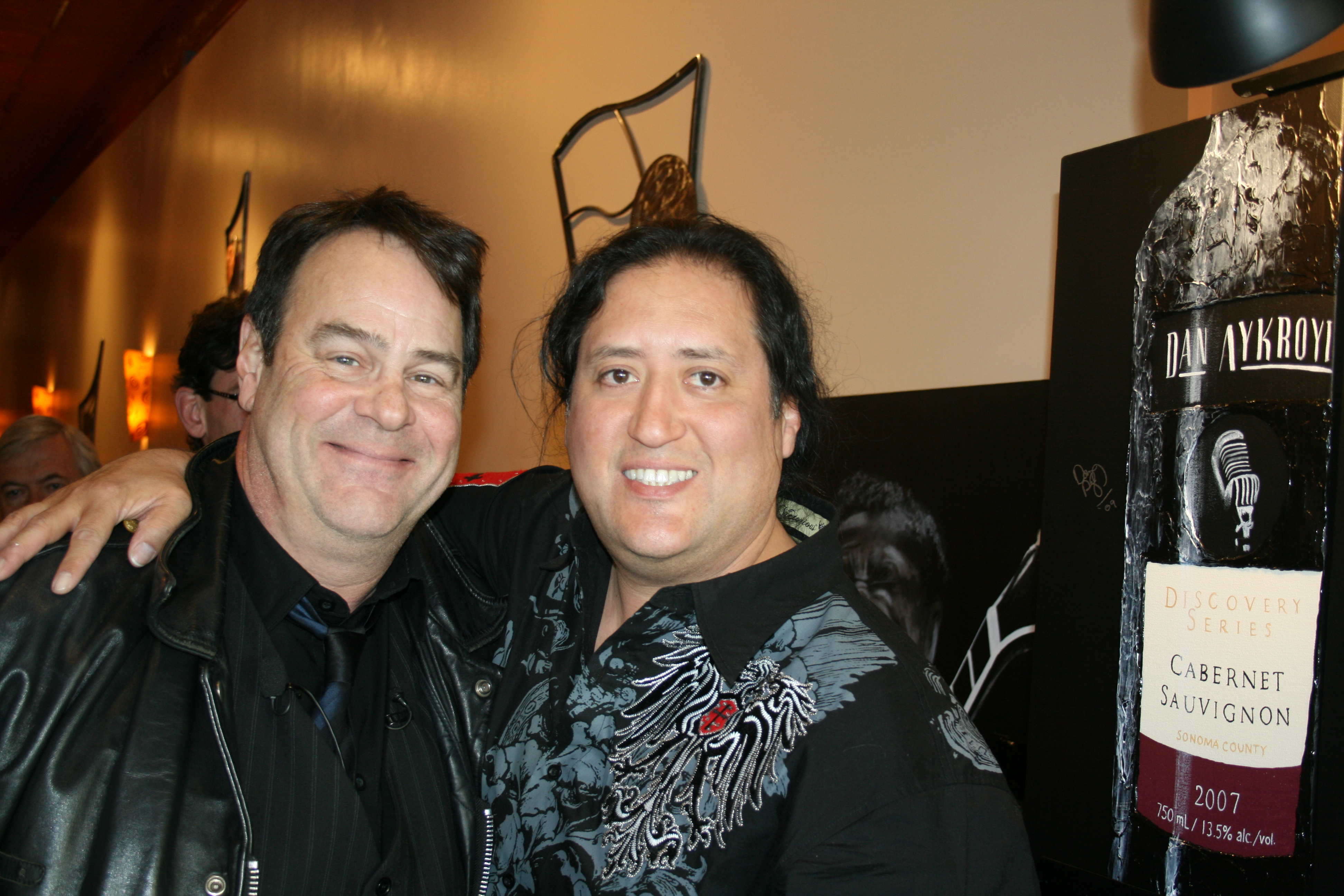 Richard Nunez promoting Dan Aykroyd's wine in New Hampshire, February 2009.